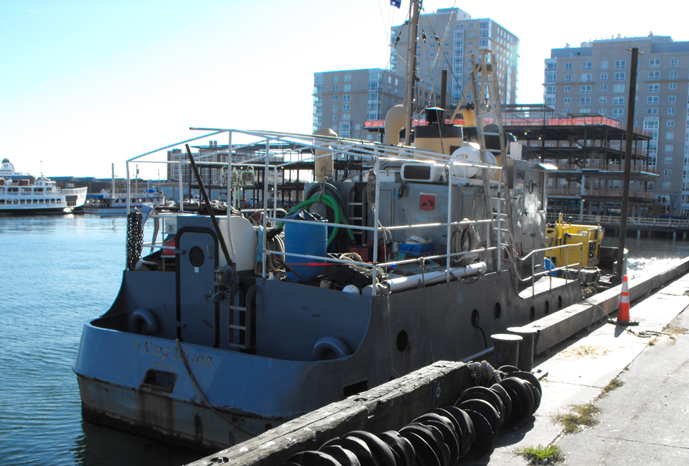 Ex USCG Chokeberry, in Boston Harbor, owned by the Boston Police Dept.